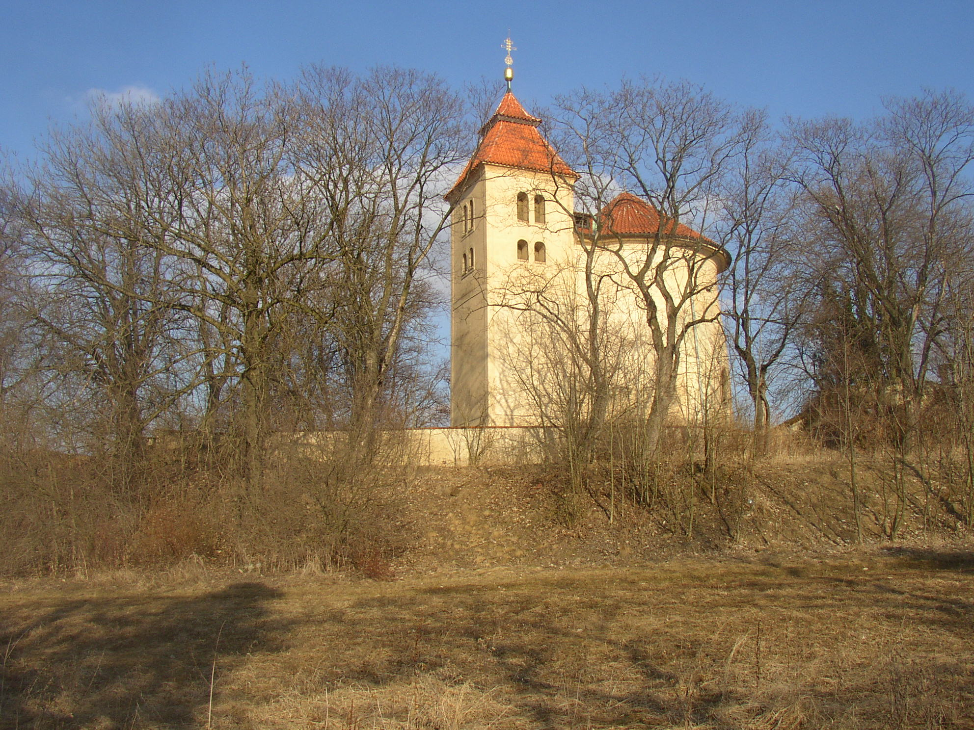 Church of SS Peter and Paul at Budeč near Zákolany. The rotunda built around 900 CE with tower added in late 12th century is the oldest preserved building in the Czech Republic.